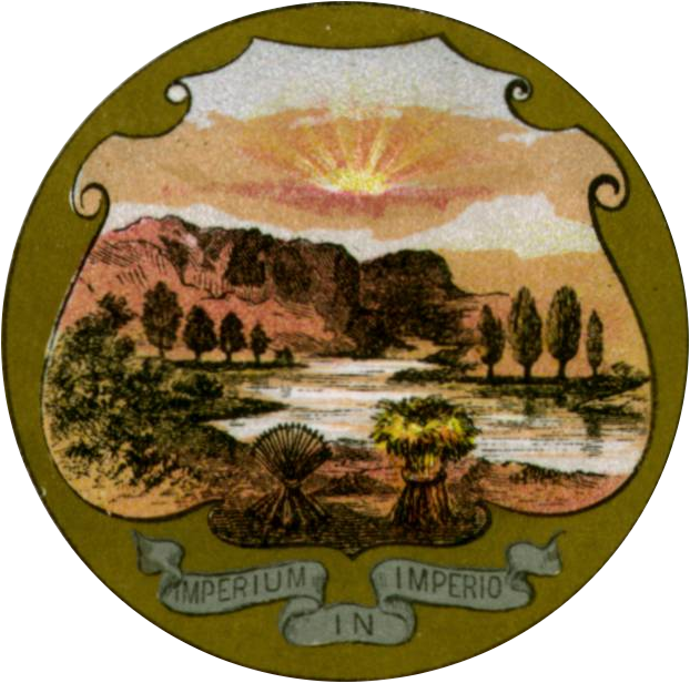 Former coat of arms of the U.S. state of Ohio, featured in Arms of the States and Territories of the American Union (1876). This design was officially adopted on April 6, 1866, along with the state motto Imperium in imperio. It was replaced with a much simpler design on May 9, 1868. The depiction here is missing the following elements, as it was defined in Section 1 of the Ohio General Code: "...supporting the shield, on the right, shall be the figure of a farmer, with implements of agriculture and sheafs of wheat standing erect and recumbent; and in the distance, a locomotive and train of cars; supporting the shield, on the left, shall be the figure of a smith, with anvil and hammer; and in the distance, water, with a steamboat..." [1]